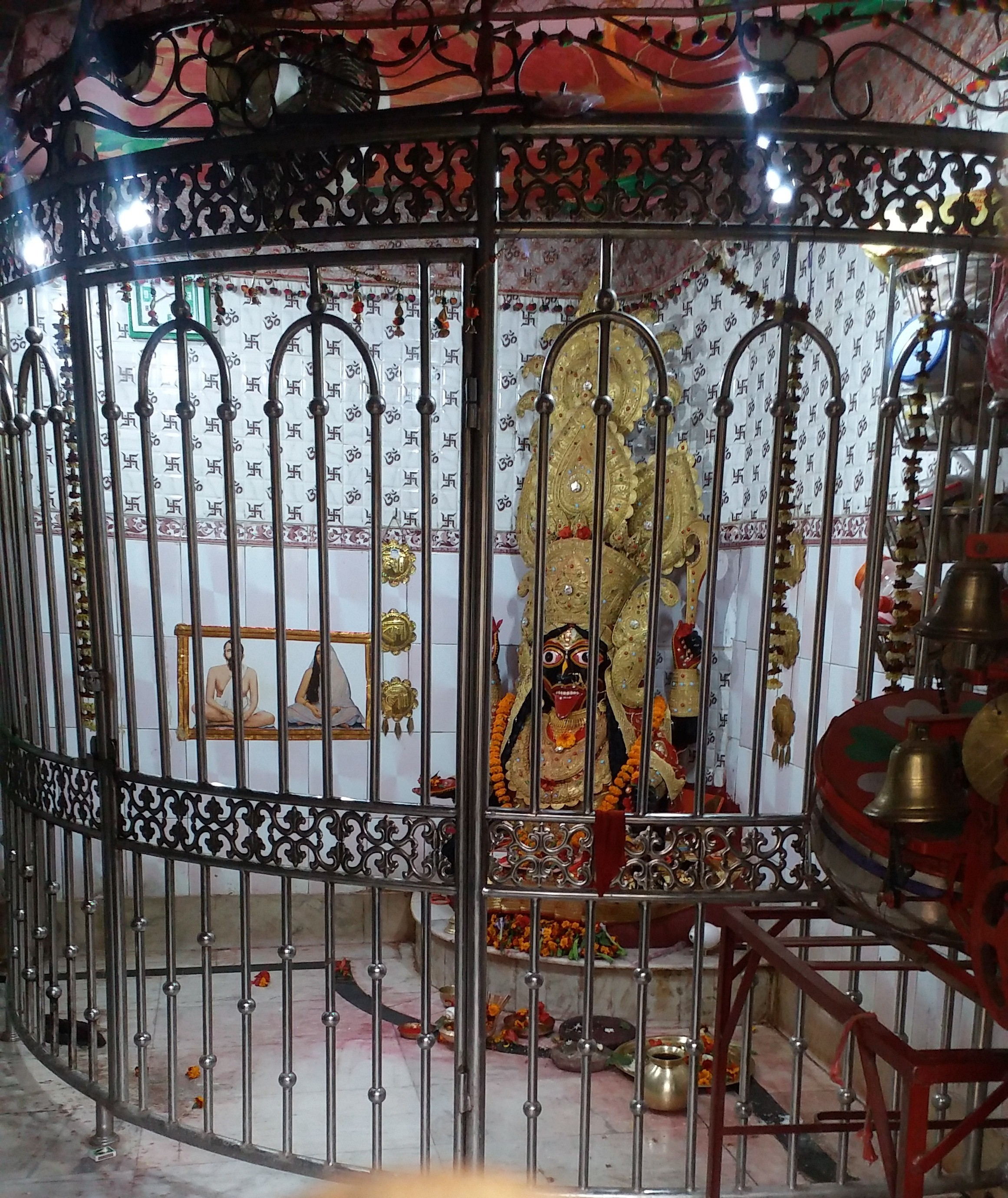 Maa Nimbabasini- Behira Kaalimata-Maa Annapurna of Kashidhamfront